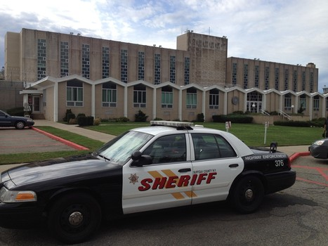 A Marked Suffolk County Sheriff's Office Unit is pictured in front of the Riverhead Correctional Facility.